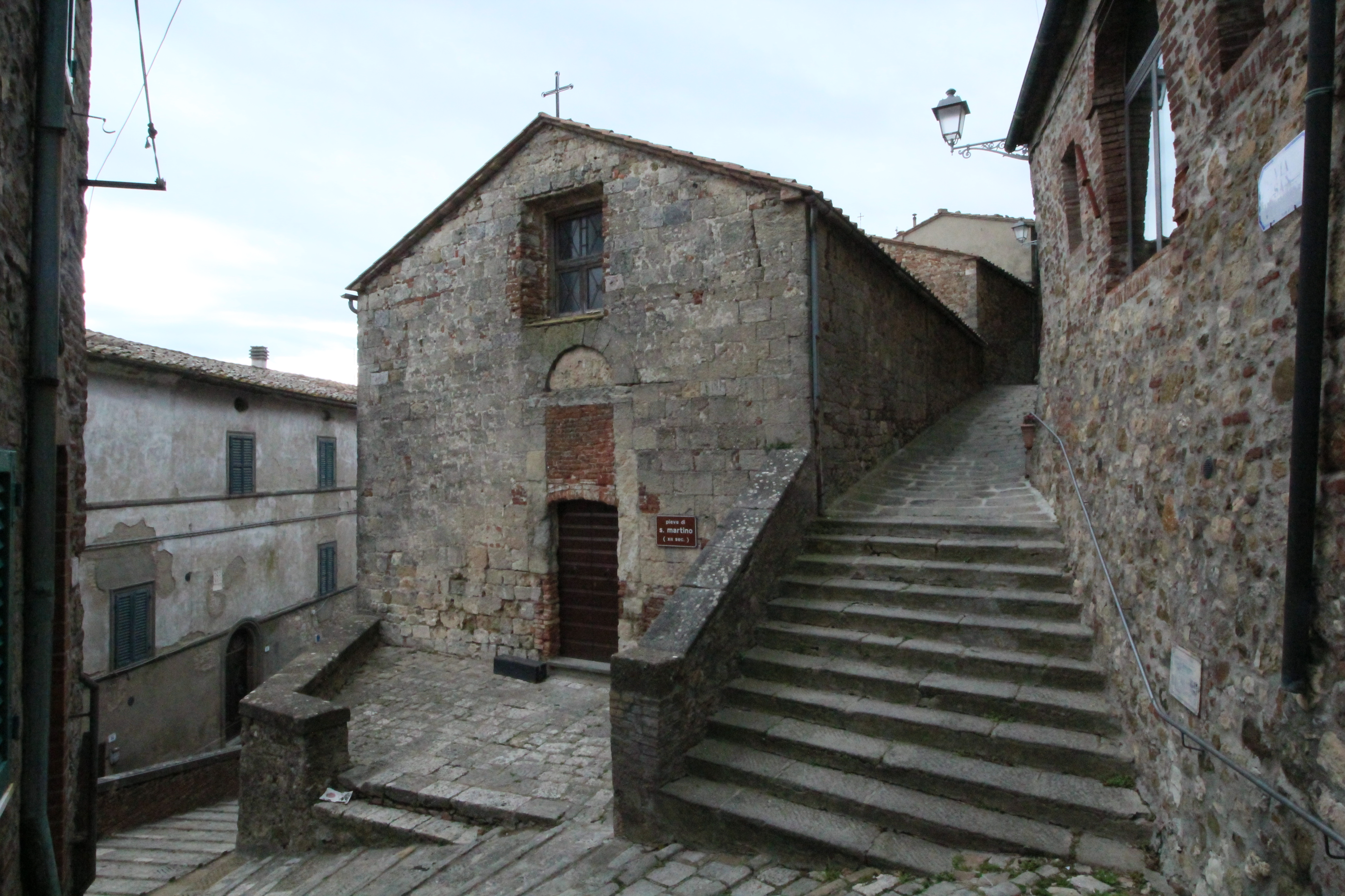 Church of San Martino, Chiusdino, Val di Merse, Province of Siena, Tuscany, Italy